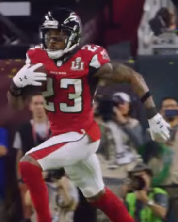 Robert Alford in Superbowl LI